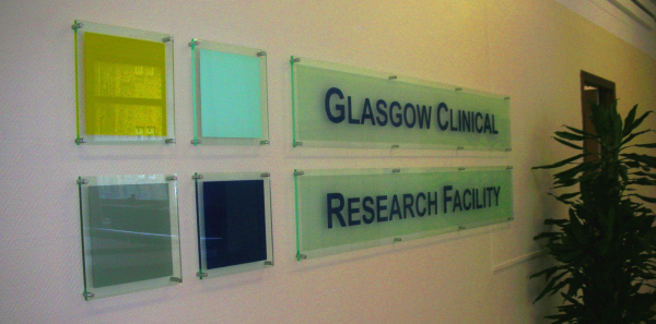 A Photograph of the sign outside the Glasgow Clinical Research Facility